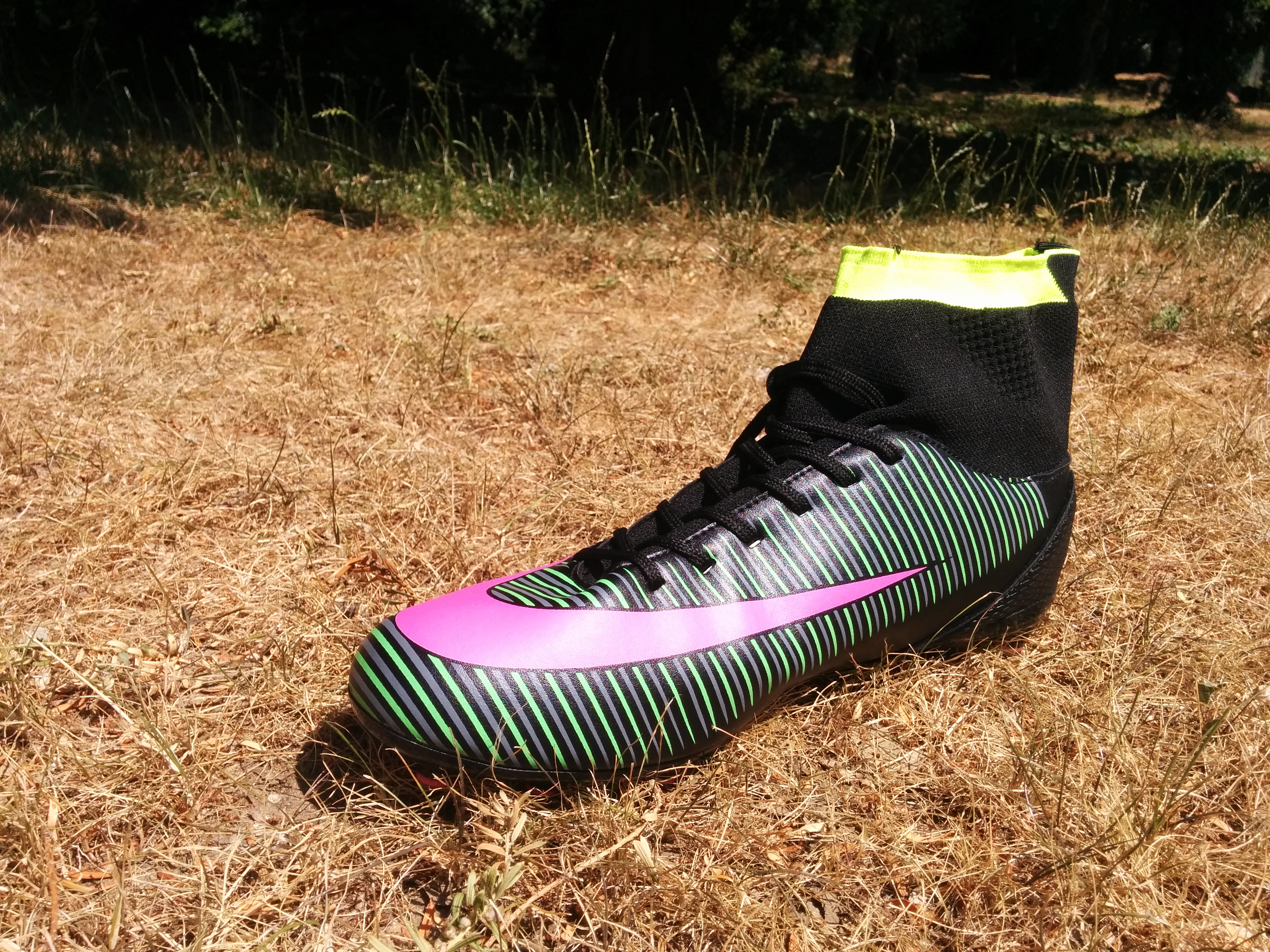 A football boot based upon a common design in 2018. Note the removal of the leather tongue, the lowering of the rear heel section, and the addition of a sock style fastener. This is to help ensure maximum flexibility so the wearer's gait can be as natural as possible without impediment from the boot.